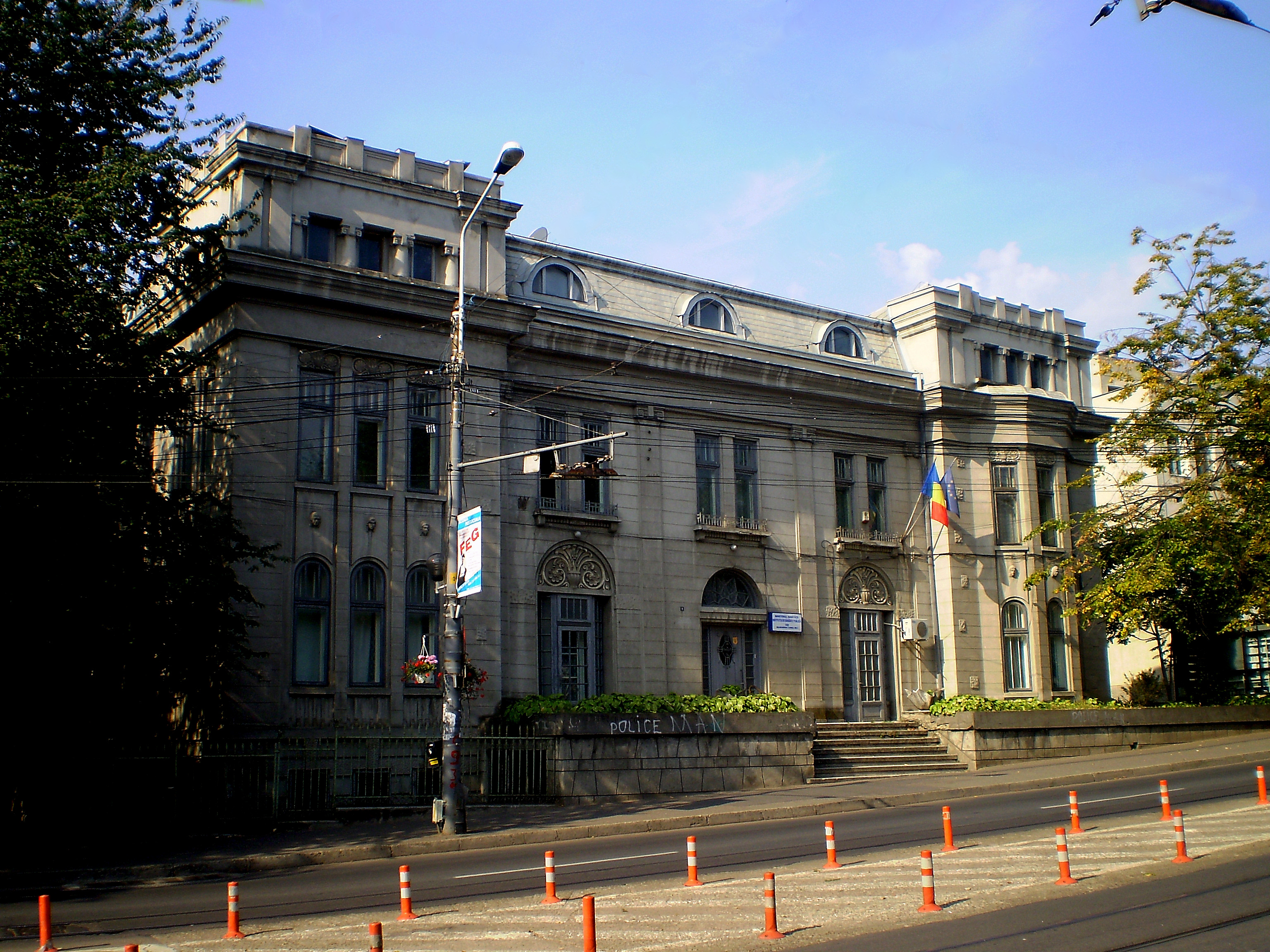 Former Mavrogheni House (today Institute of Hygiene M. Ciucă) , Iaşi,RomaniaRomână: Fosta casă Mavrogheni (Institutul de igienă M. Ciucă azi) , Iaşi , Romania